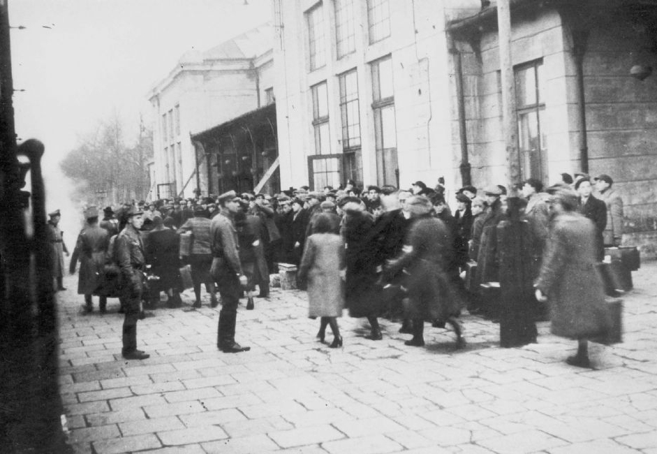 The Sosnowiec Ghetto set up in World War II by Nazi German authorities for Polish Jews in the Province of Upper Silesia during the Holocaust was liquidated during Aktionen lasting from June until August 1943.